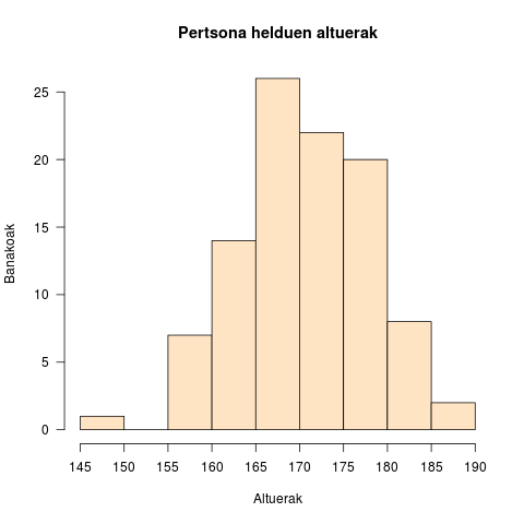 Histogram created with R